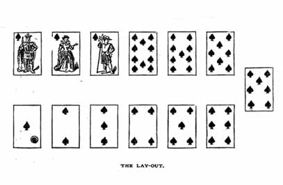 The layout of the 19th century card game "Faro"